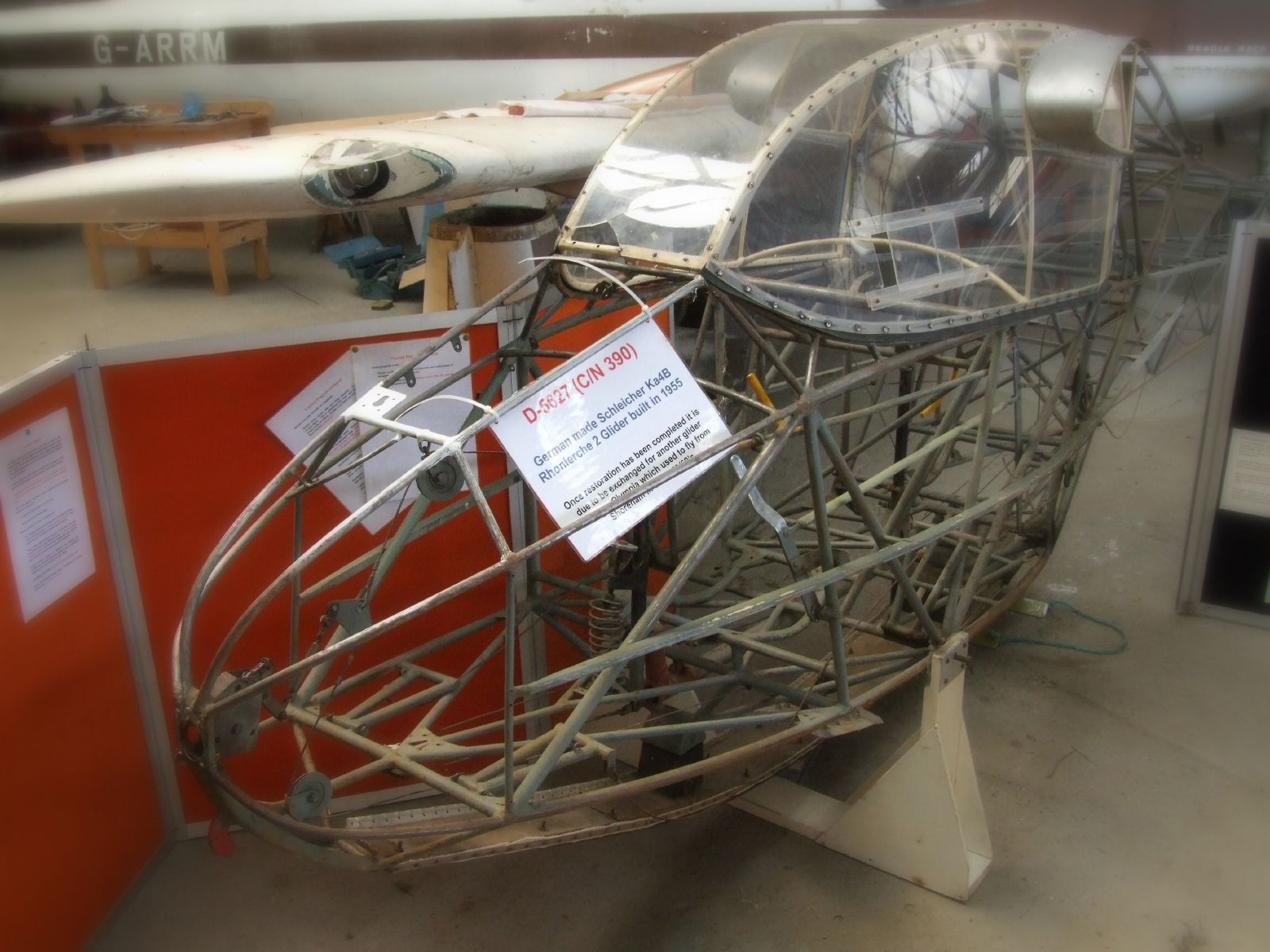 Picture of an Schleicher Ka 4, built in 1950, currently being restored in a hanger at Shoreham airfield